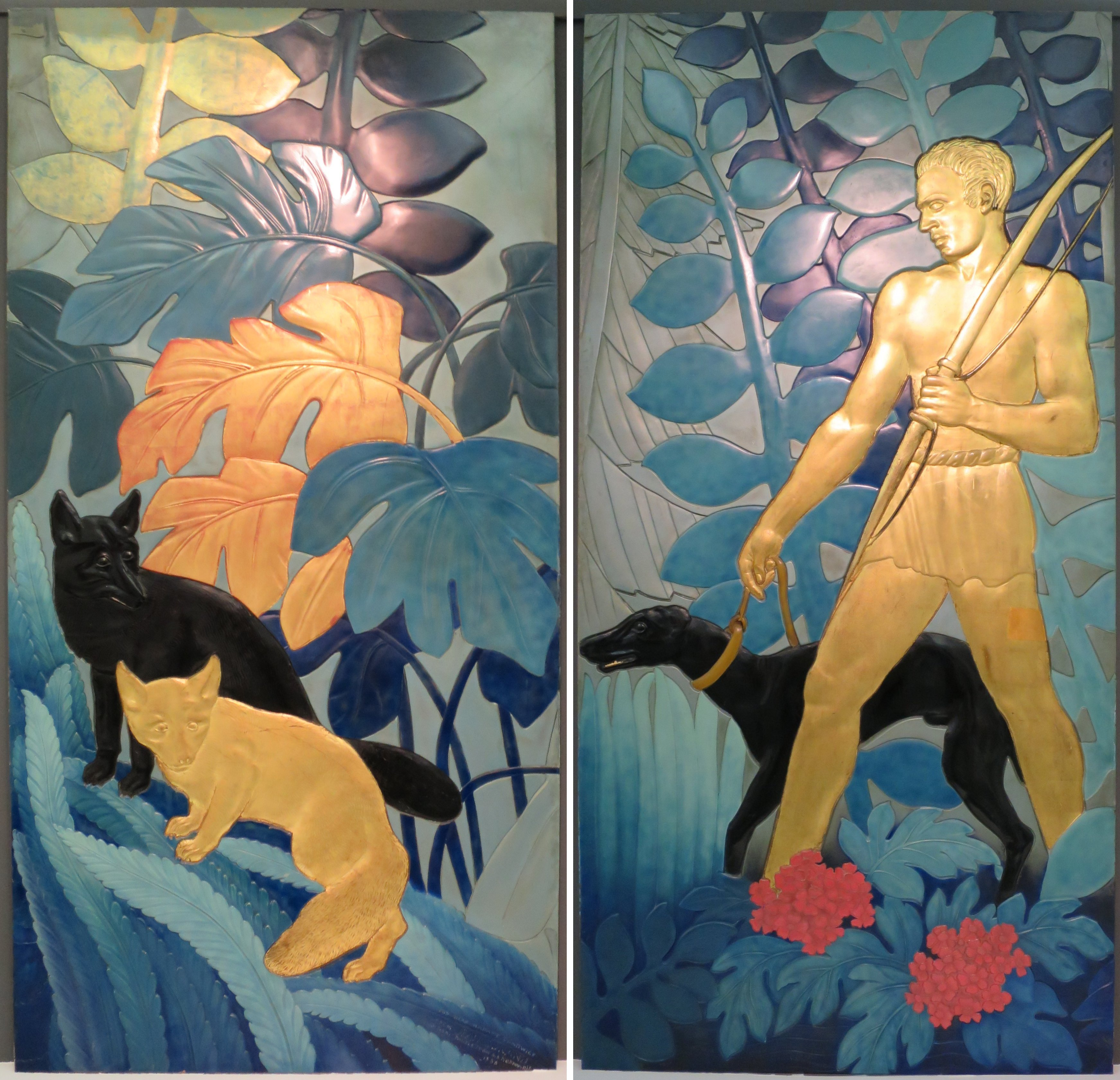 La Chasse (The Hunt) by Jean Dunand, 1935, lacquer, gold leaf and paint on plaster, Wolfsonian-FIU Museum